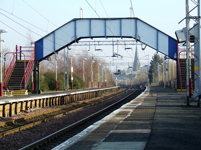 Paisley St James railway station